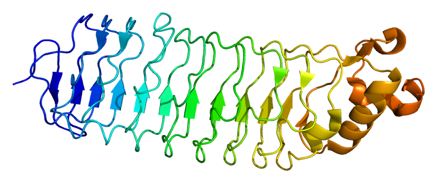 Structure of the RTN4R protein. Based on PyMOL rendering of PDB 1ozn.